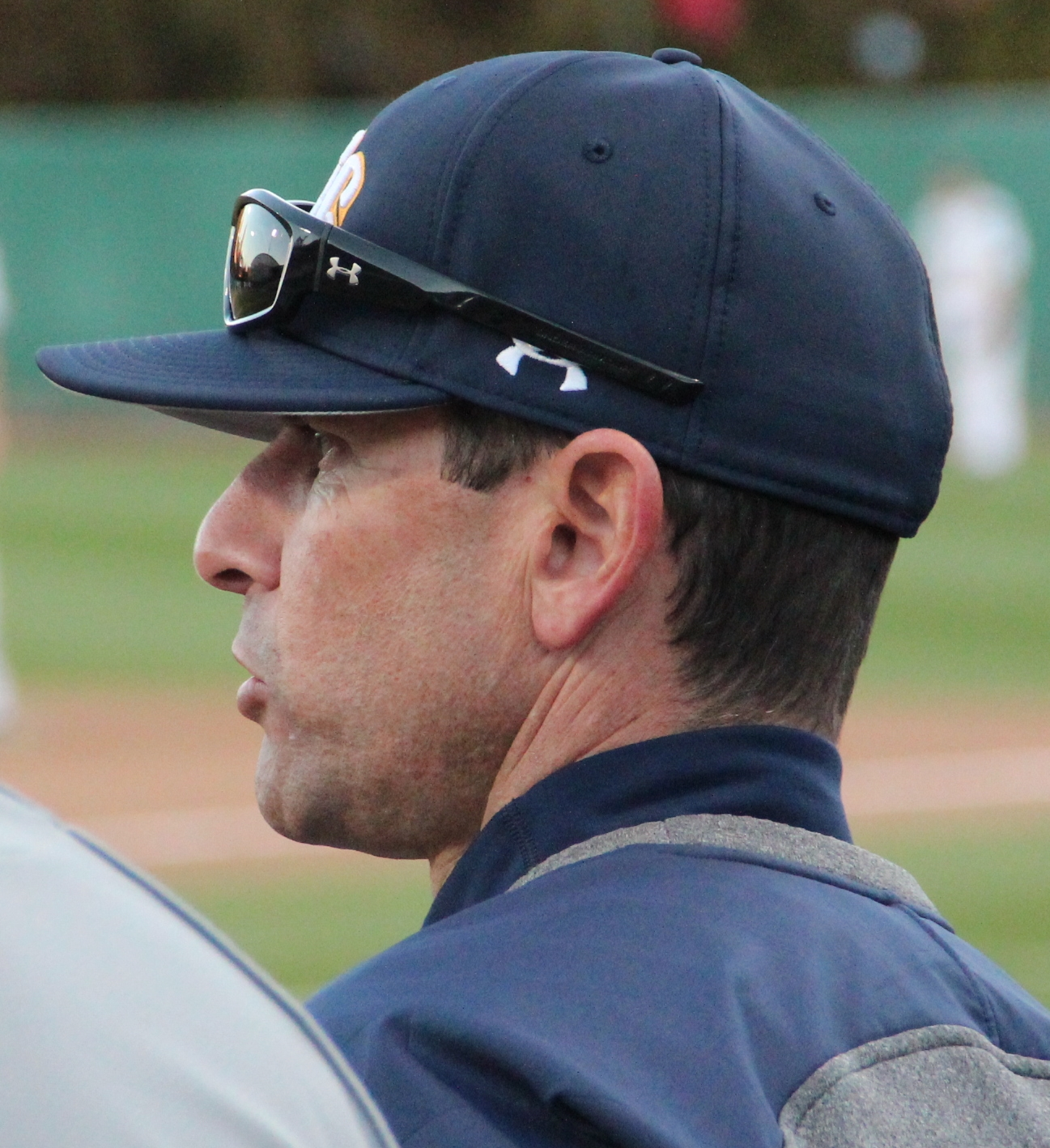 UNCG baseball coach Link Jarrett, 2014